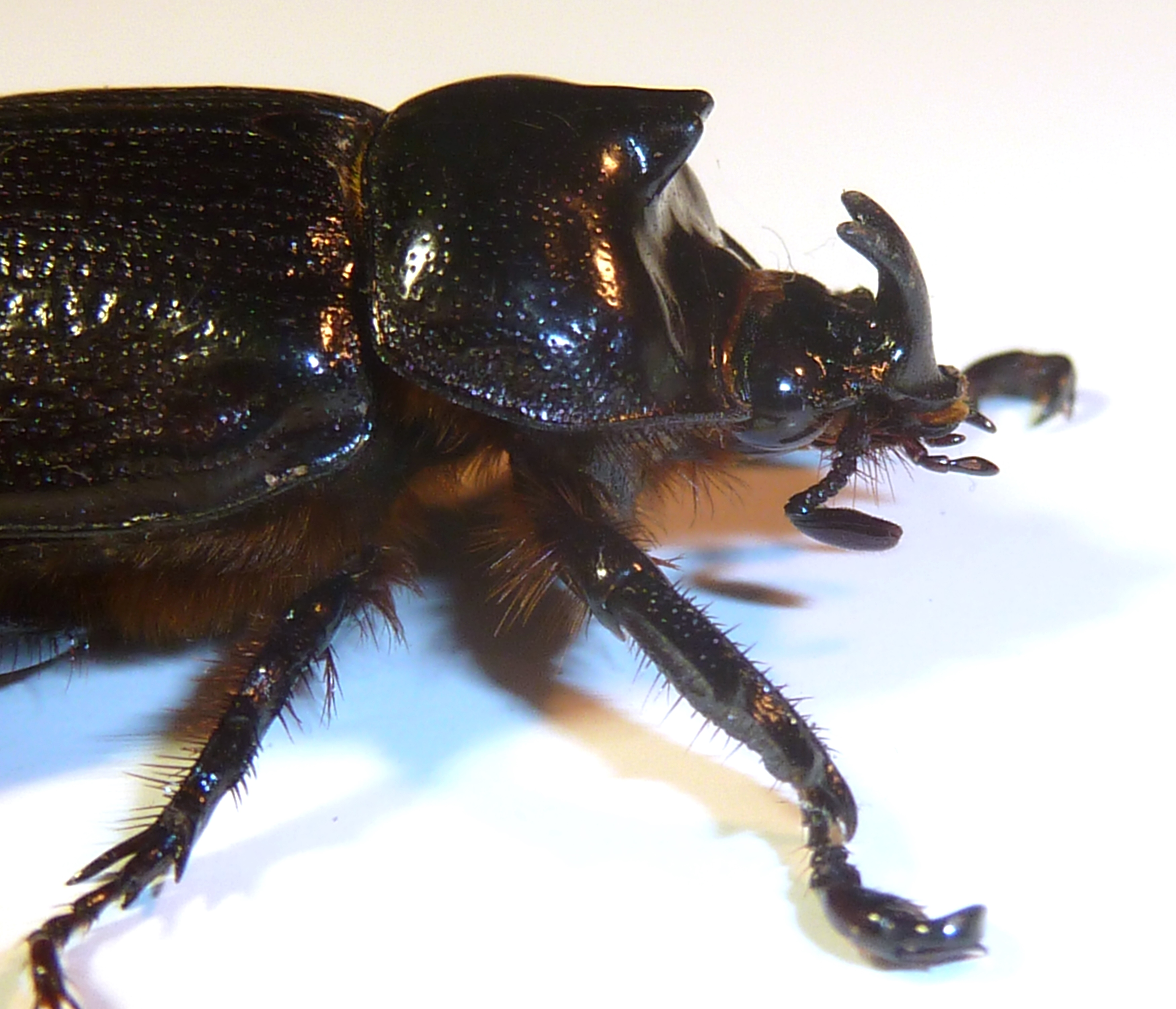 Fork-horned rhino beetle in suburban Pretoria. Was attracted by light.